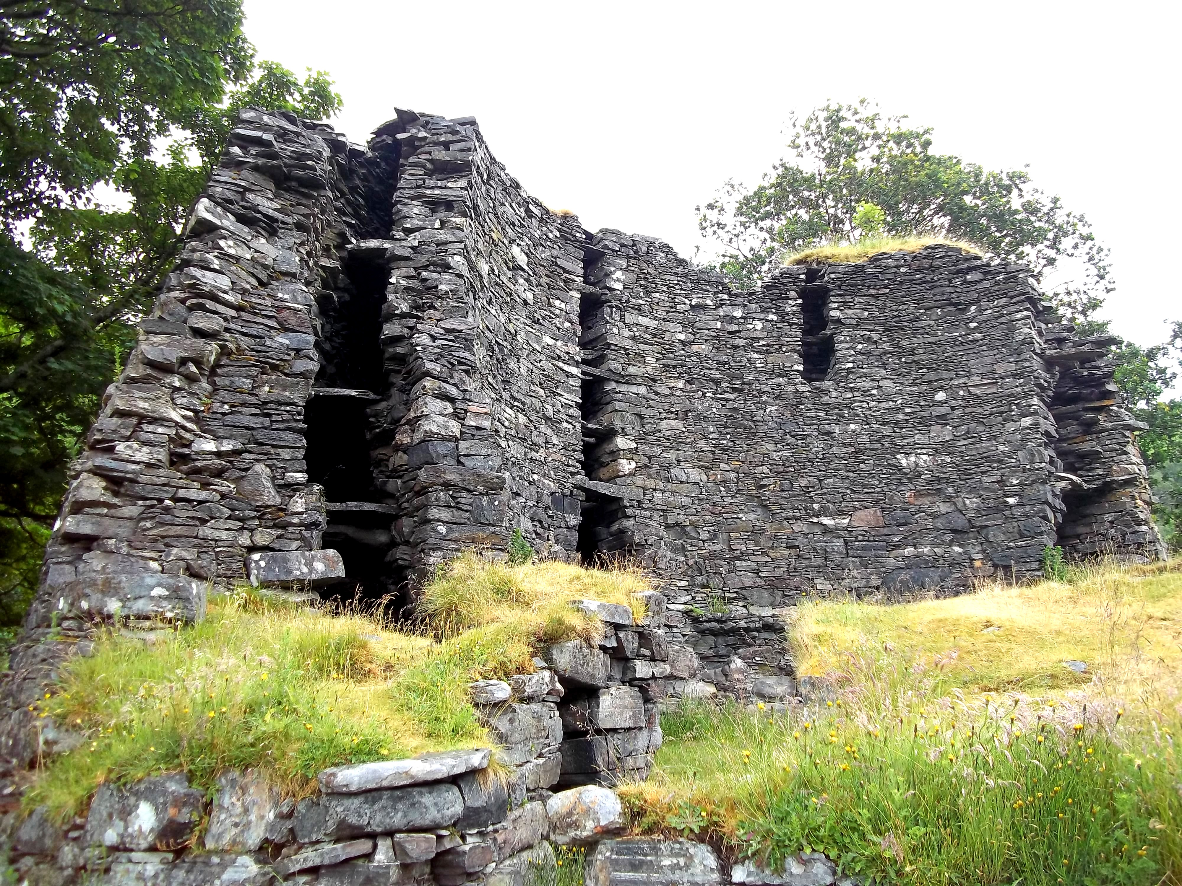 Dun Troddan - an Iron-age Broch near Glenelg in Scotland.